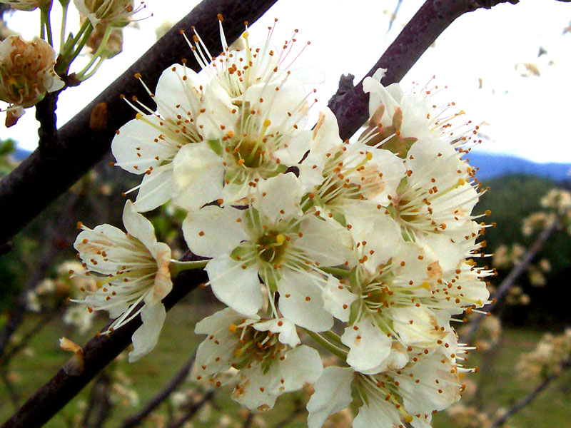 Plum Flowers